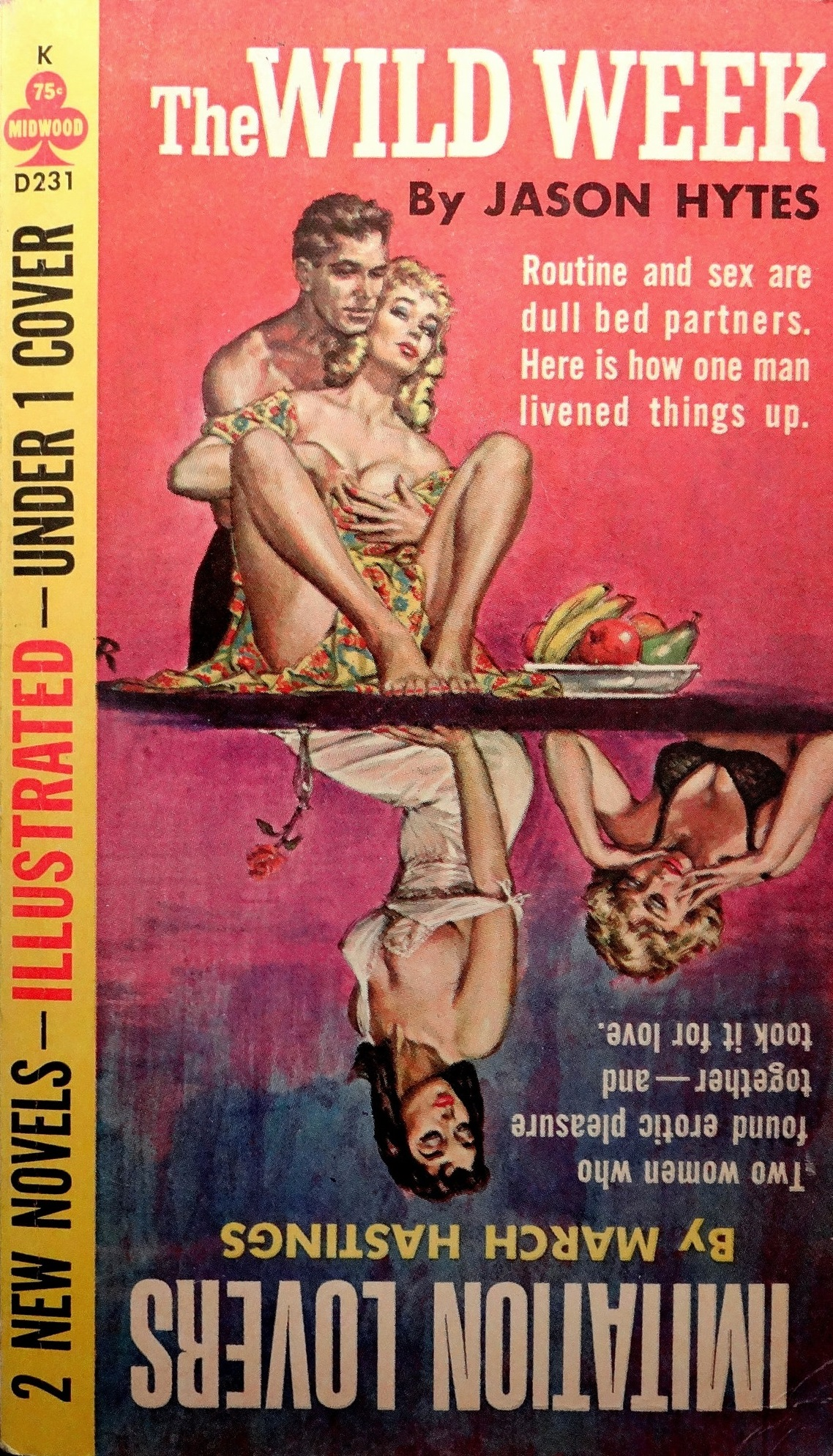 Cover of "The Wild Week" by Jason Hytes and "Imitation Lovers" by March Hastings (pseudonym of Sally Singer). Illustration by Frank Frazetta.